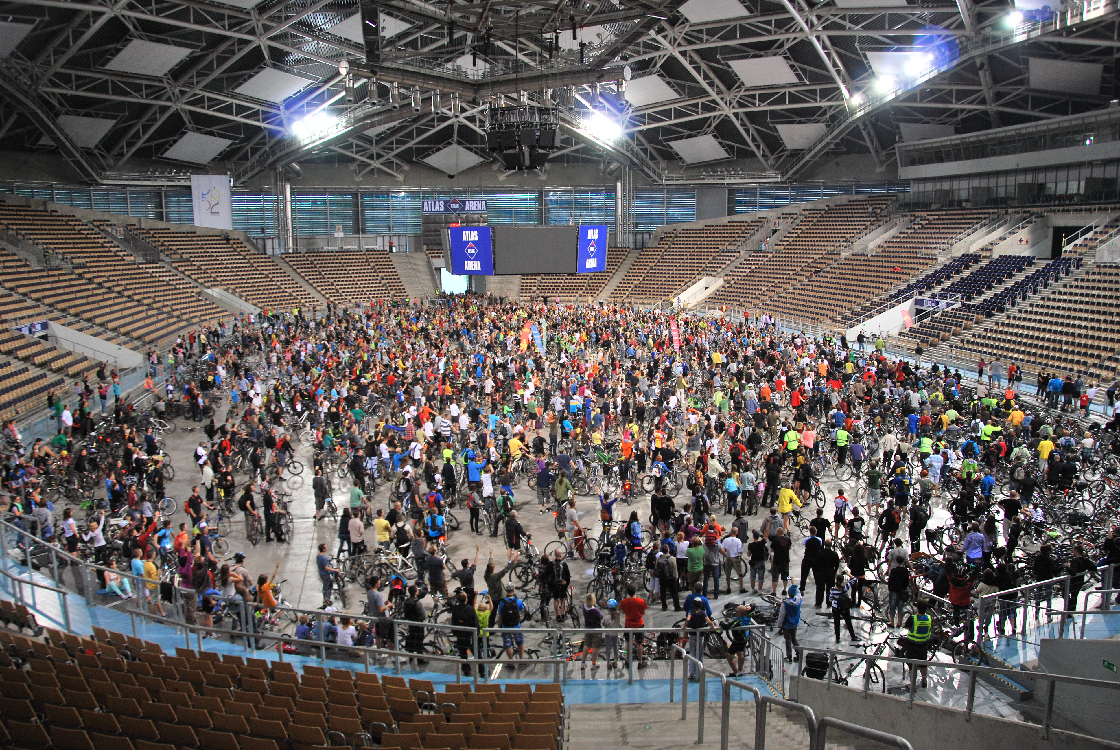 142nd annual Critical Mass in Łódź, June 2013 - 14 years of Critical Mass in Łódź